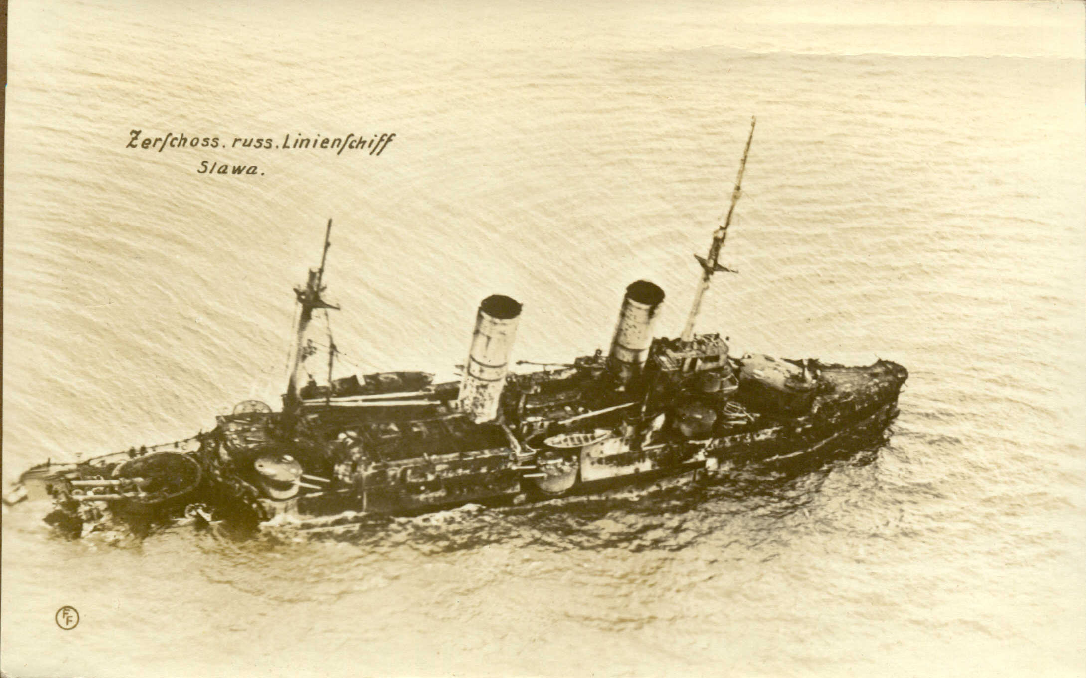 Imperial Russian battleship Slava.